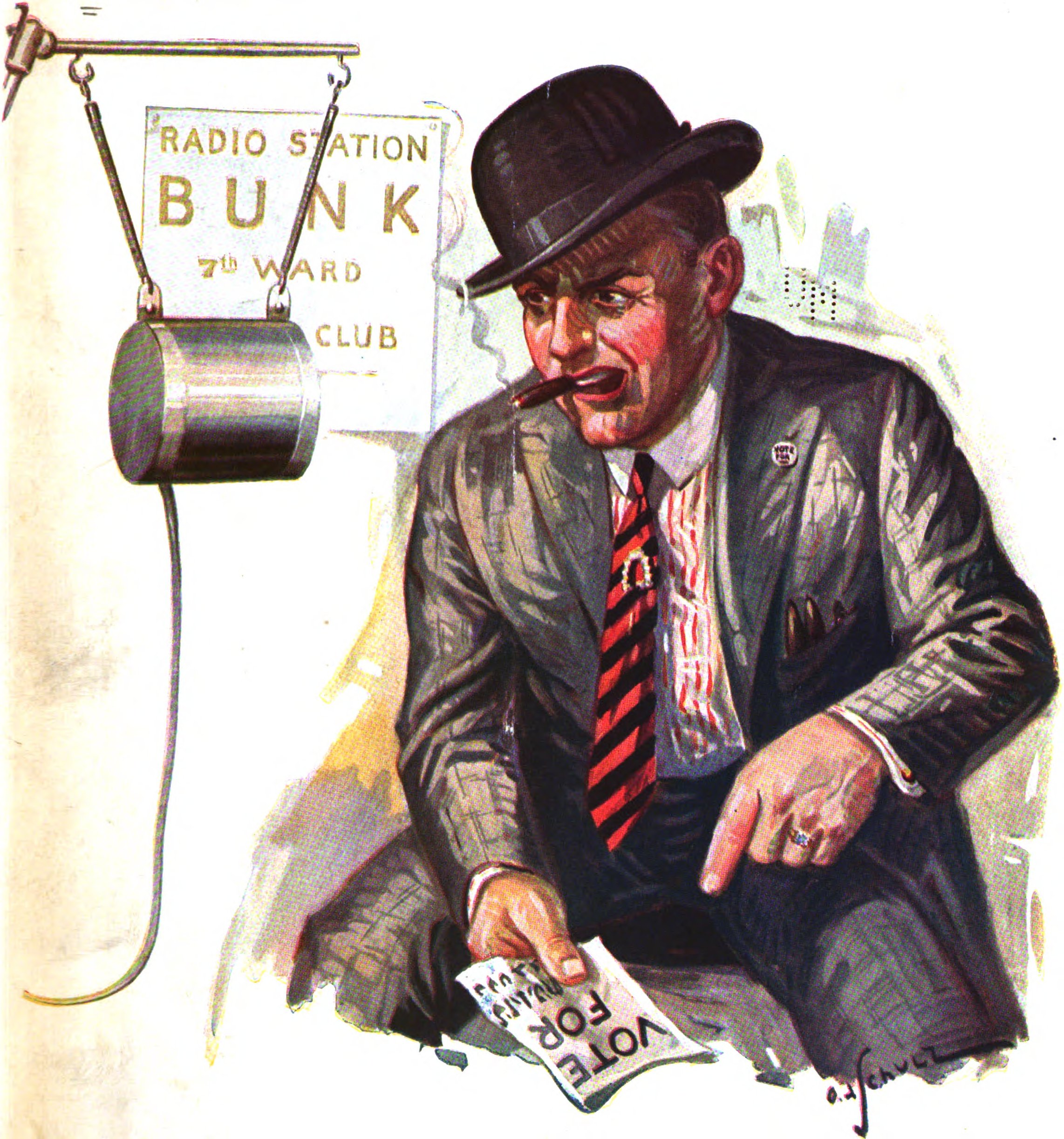 Caricature of a "ward heeler" politician haranguing voters by radio, from the cover of a 1922 American radio magazine. In 1922 radio was a revolutionary new technology. AM radio transmission only became widespread with the availability of amplifying vacuum tubes after WW1, and broadcasting had suddenly sprung up two year earlier, in 1920. Functionaries in the wards of the country's corrupt political machines, like the one shown here, now had a better way of catching the voters' ears than getting them out to rallies and meetings - they set up their own radio transmitters and broadcast political speeches into voters' homes. The sign on the wall satirizes this: the 7th ward's radio station has the call letters "BUNK". There was concern among the public about whether this was a proper use for the airwaves. This cover art drew attention to the magazine's lead editorial: "What of political broadcasting?"